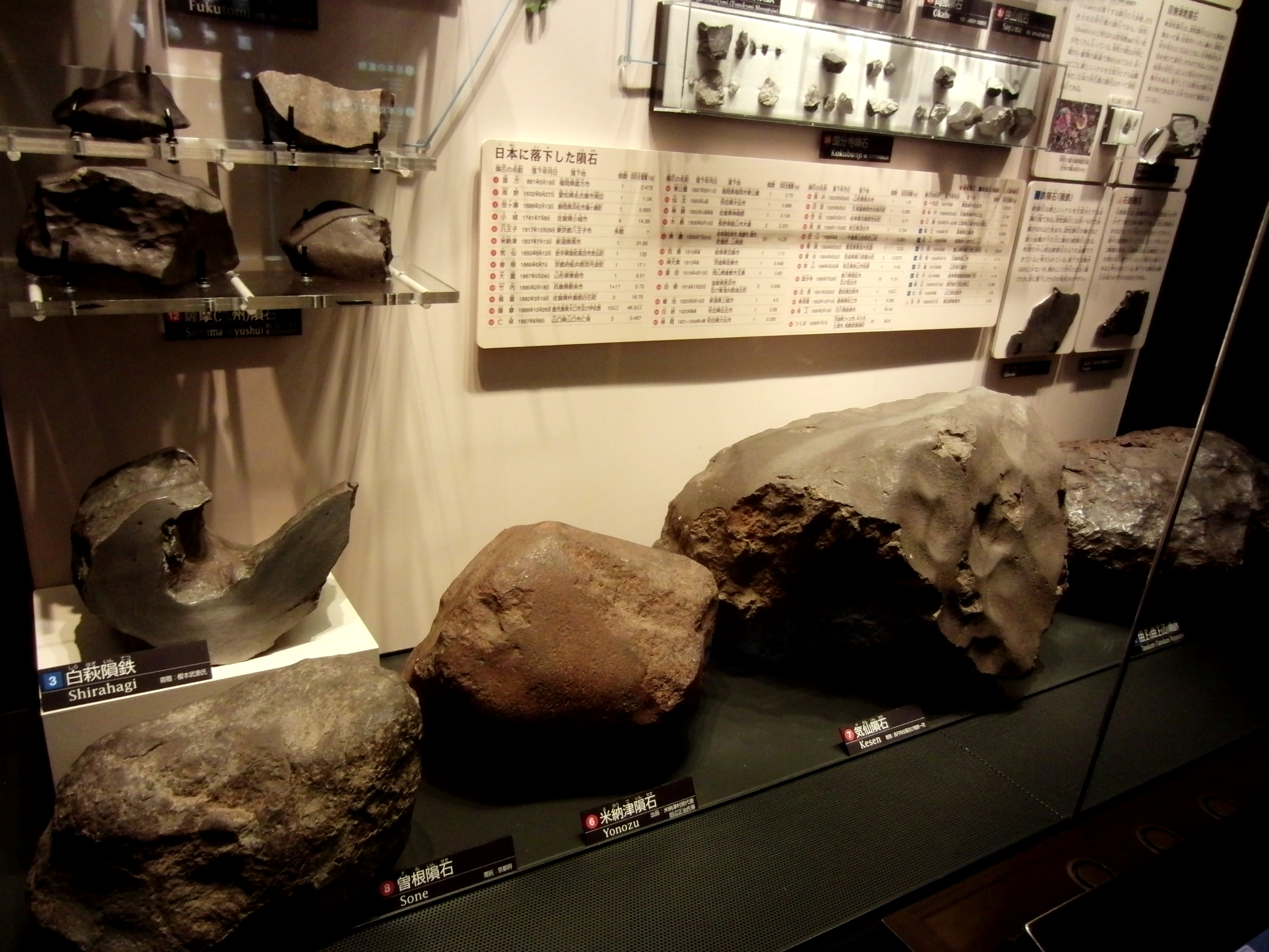 Meteorites fell in Japan. Exhibition in the National Museum of Nature and Science, Tokyo, Japan.